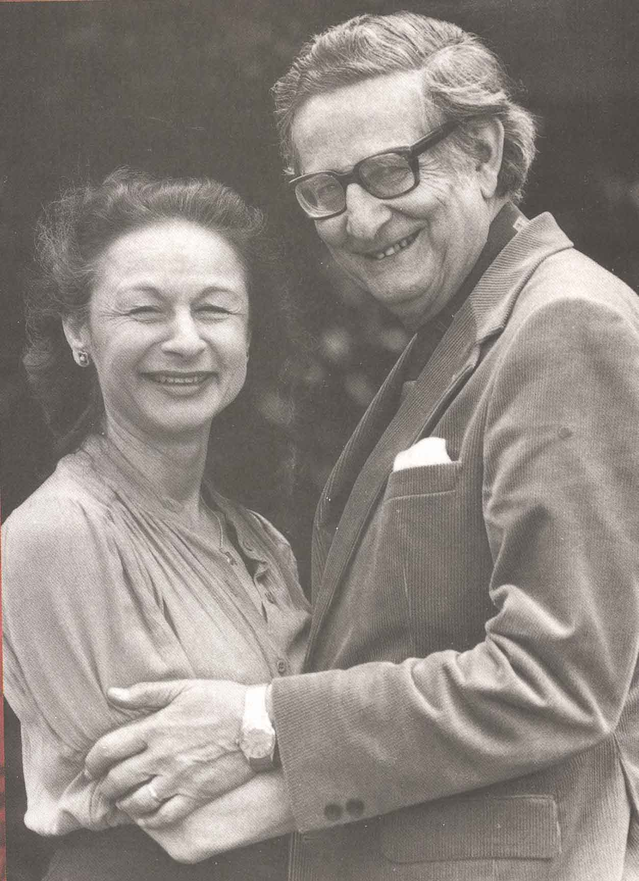 Hans Eysenck and his wife Sybil